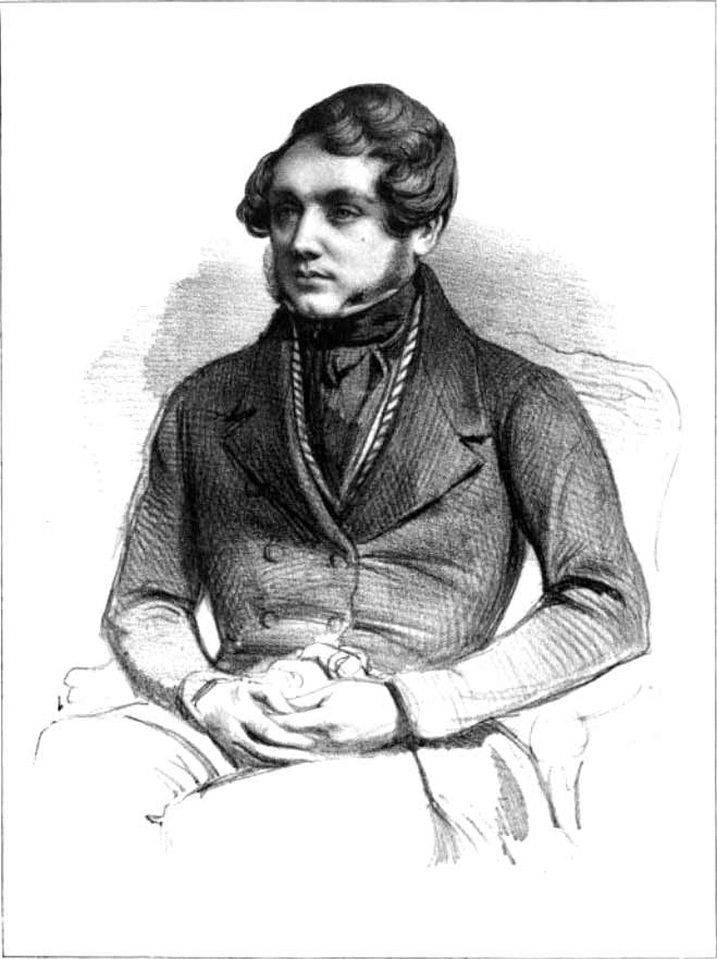 Drawing of Louis Desnoyers (1805-1868), French journalist and writer